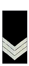 rank epaulette of a sergeant of the Victorian police